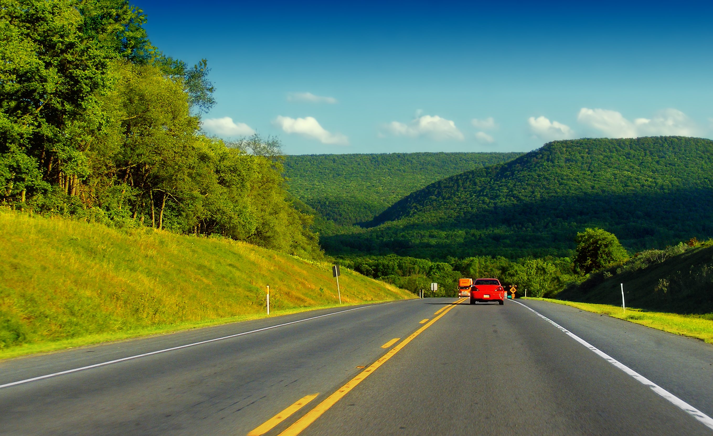 US Route 220, Lamar Township, Clinton County, near the junction with Interstate 80.